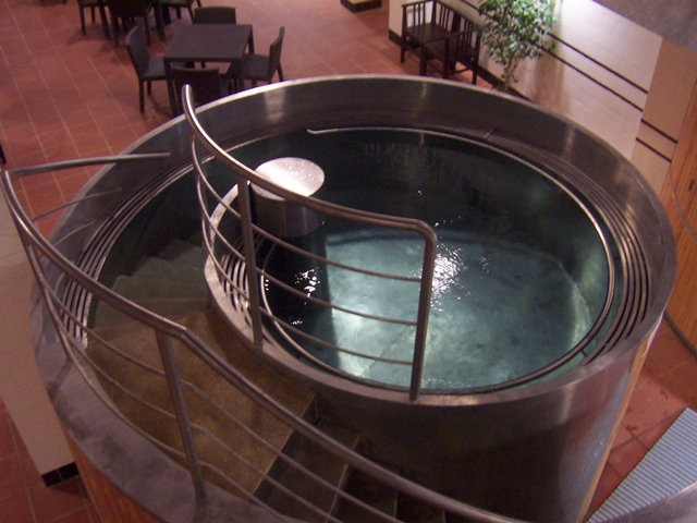 Budapest Szent Lukács Bath 20C cold water pool